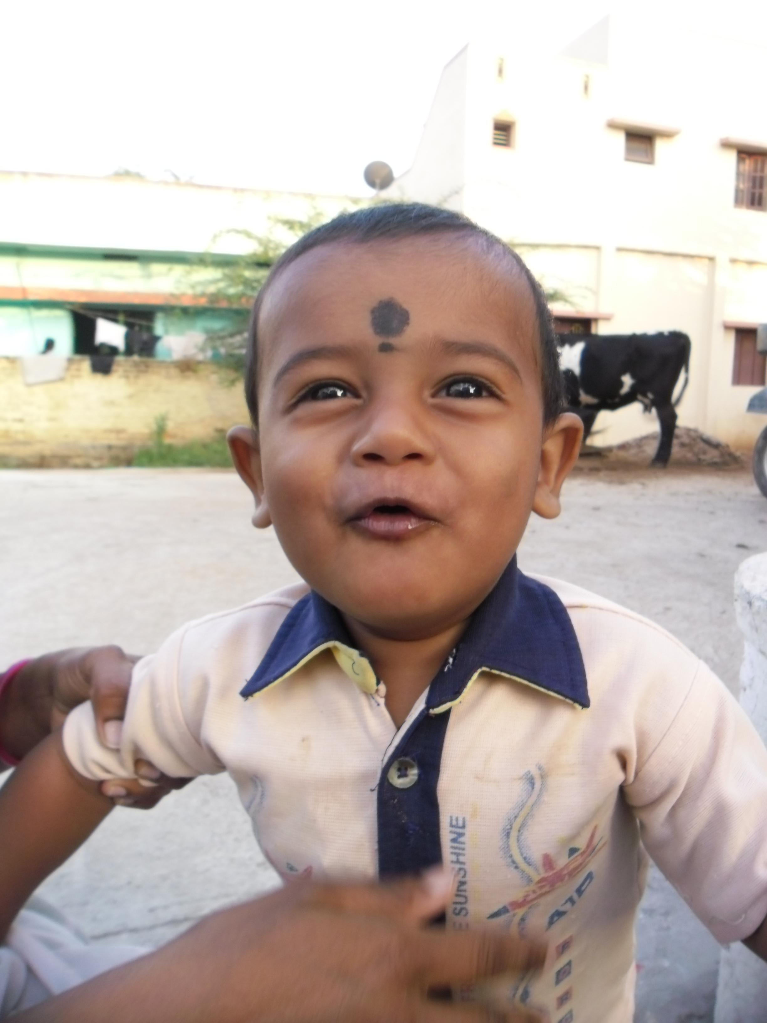 Smiling child